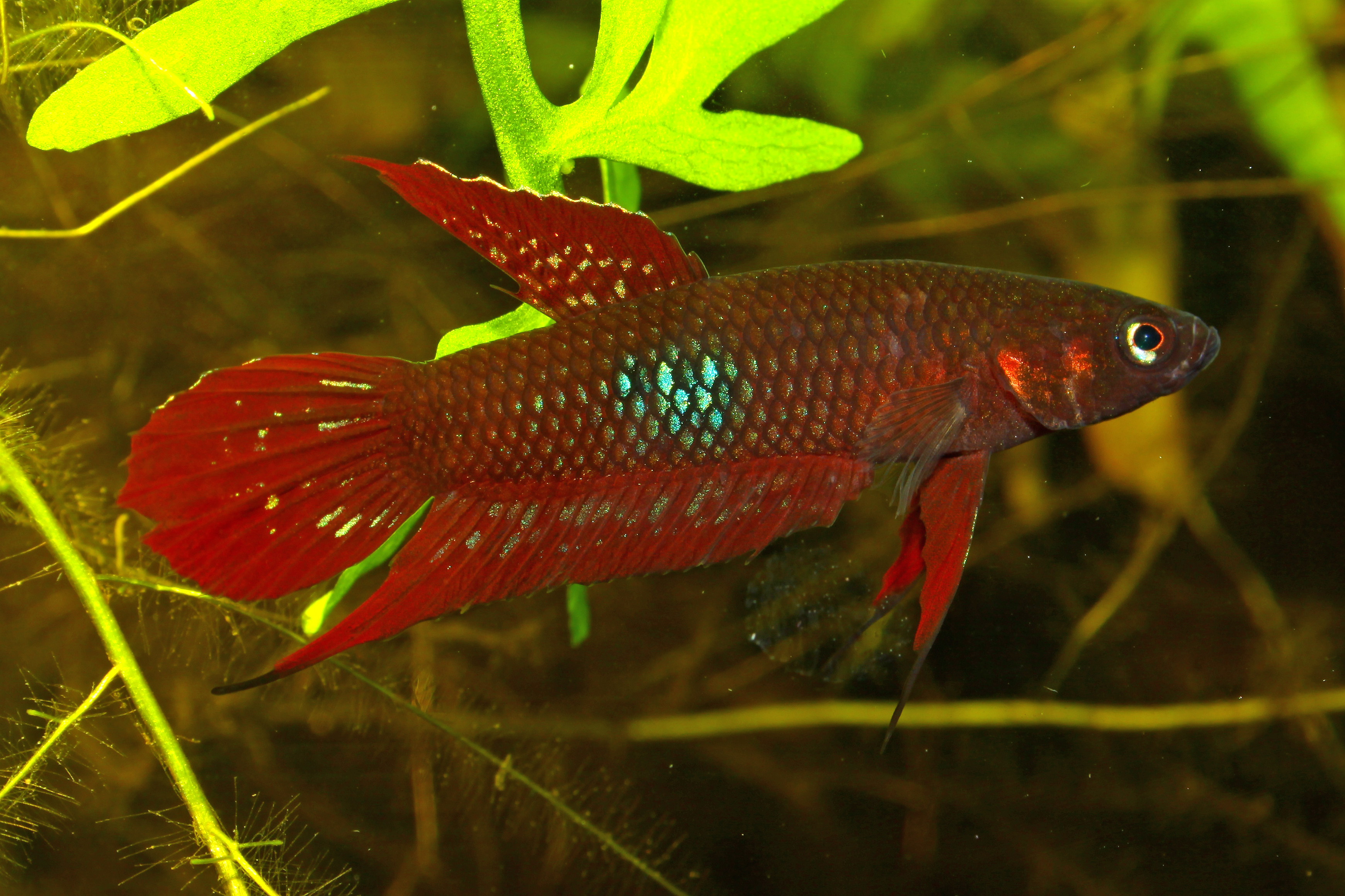 Male Betta coccina from Jambi district Sumatra